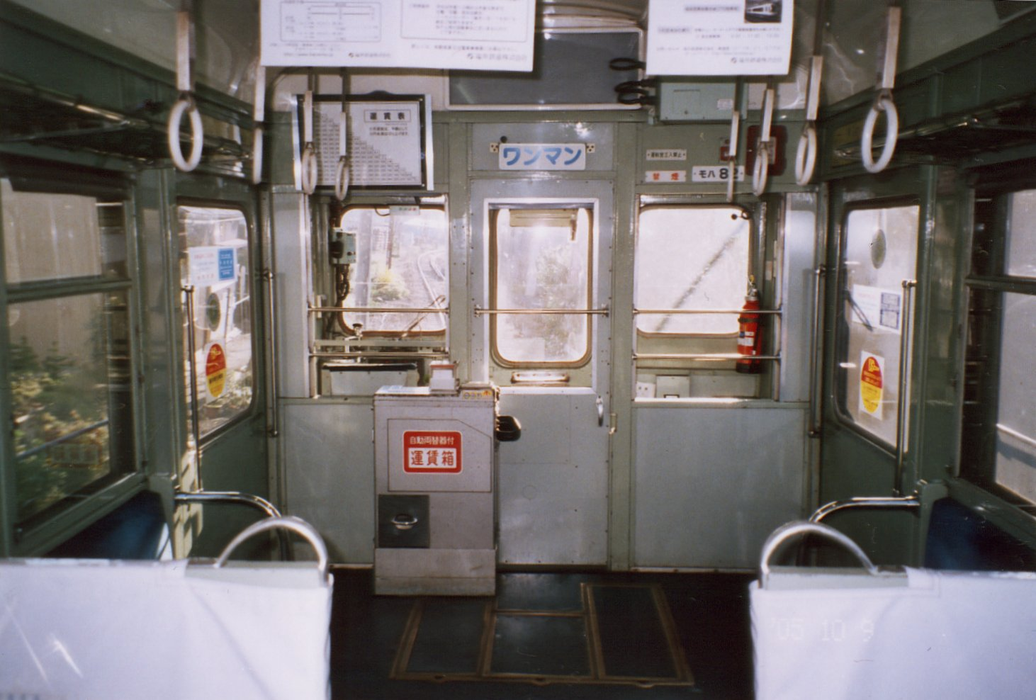 car interior of Fukui Railway type 80